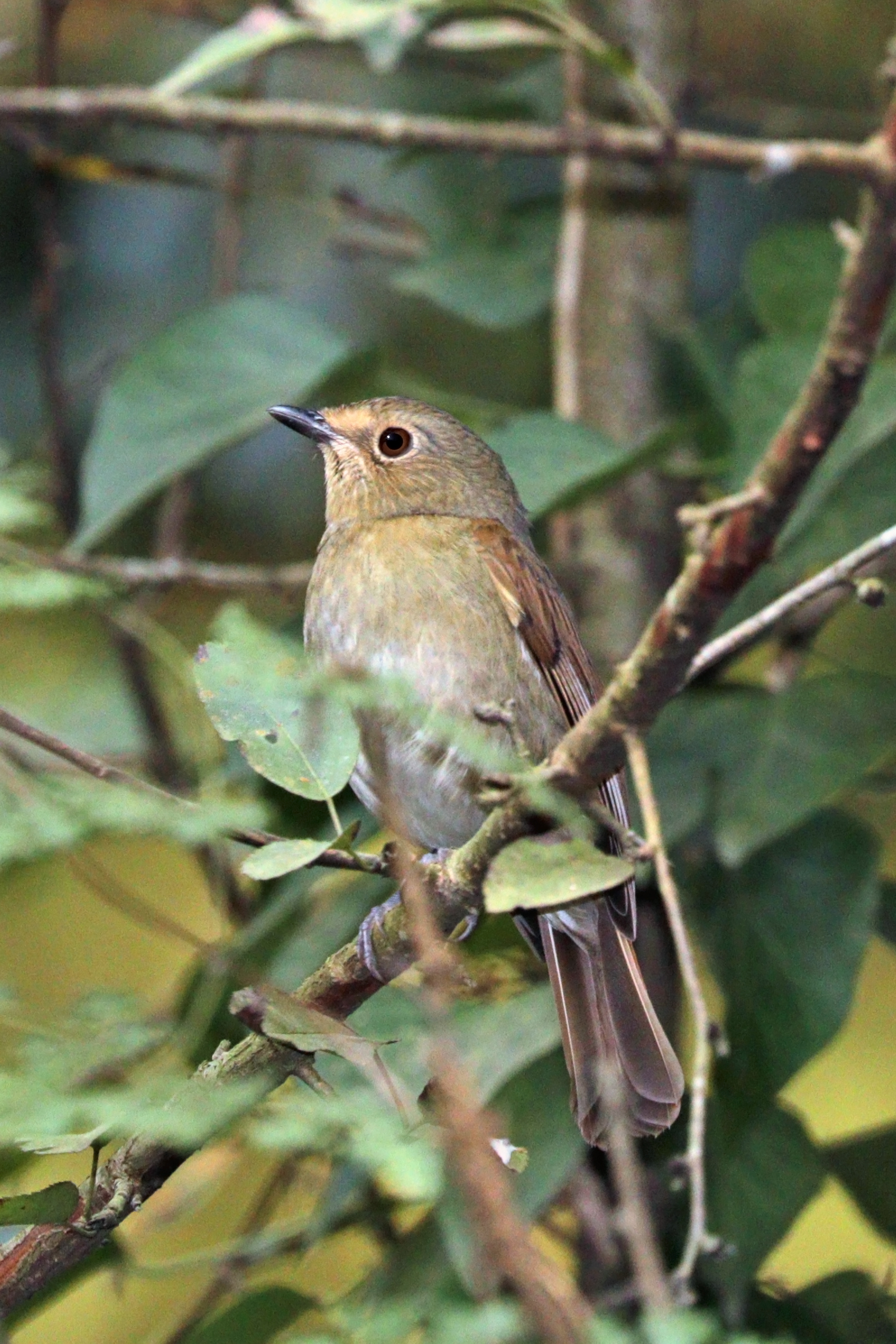 Rufous-bellied niltava (Niltava sundara sundara) female Phulchowki